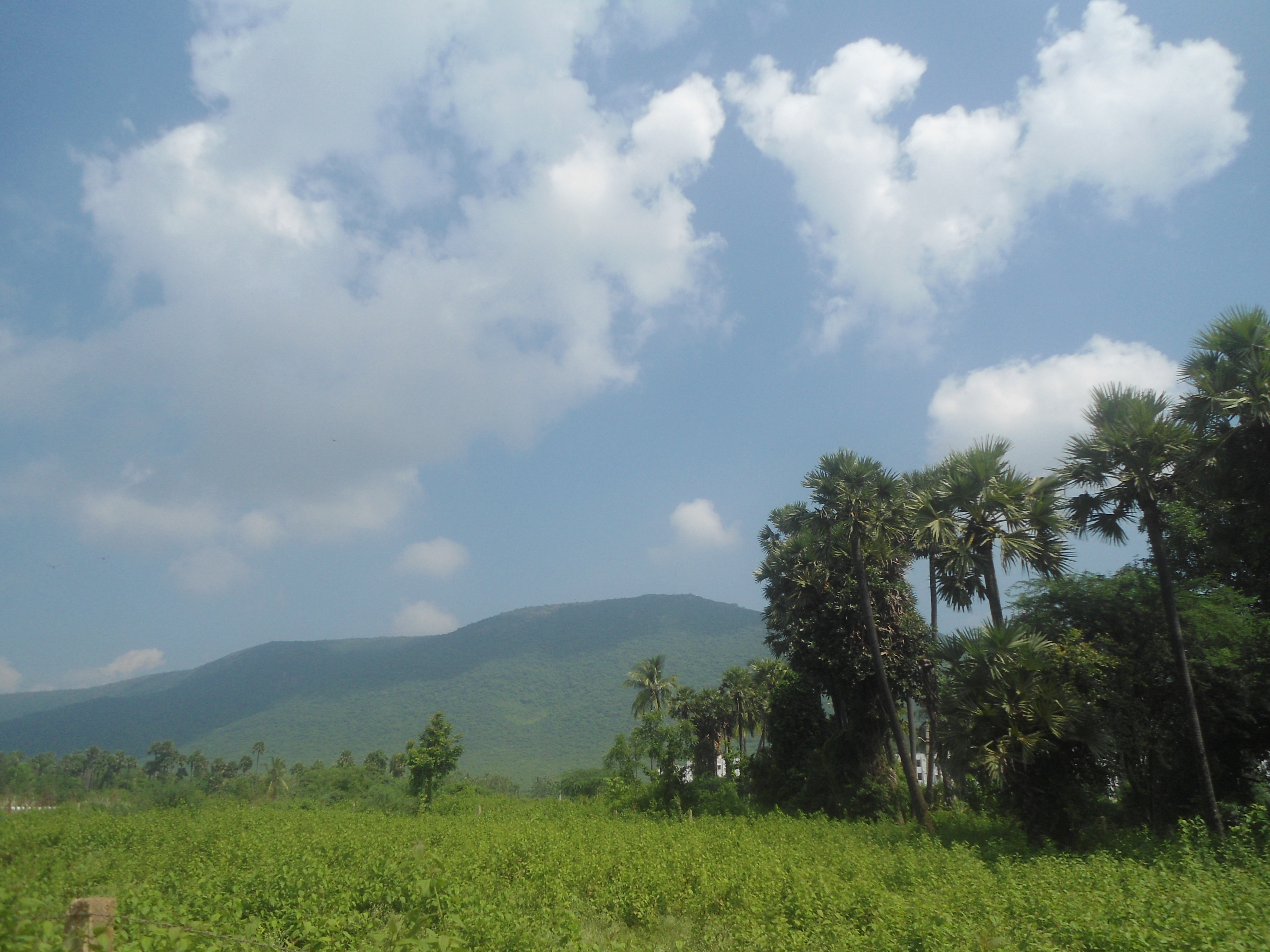 View of Eastern Ghats at Kommadi near Madhurawada of Visakhapatnam